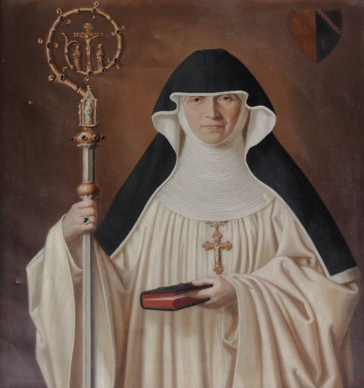 Maria Magdalena Kollefrath, abbess of Lichtenthal Abbey from 1880 to 1909